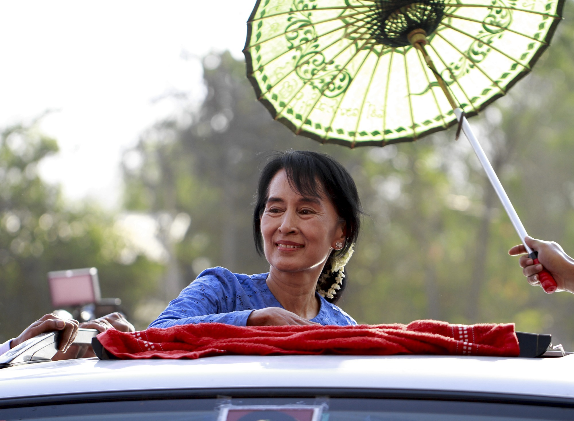 Nobel laureate Aung San Suu Kyi arrives to give speech to the supporters during 2012 by-election campaign at her constituency Kawhmu township, Myanmar on 22 March 2012.